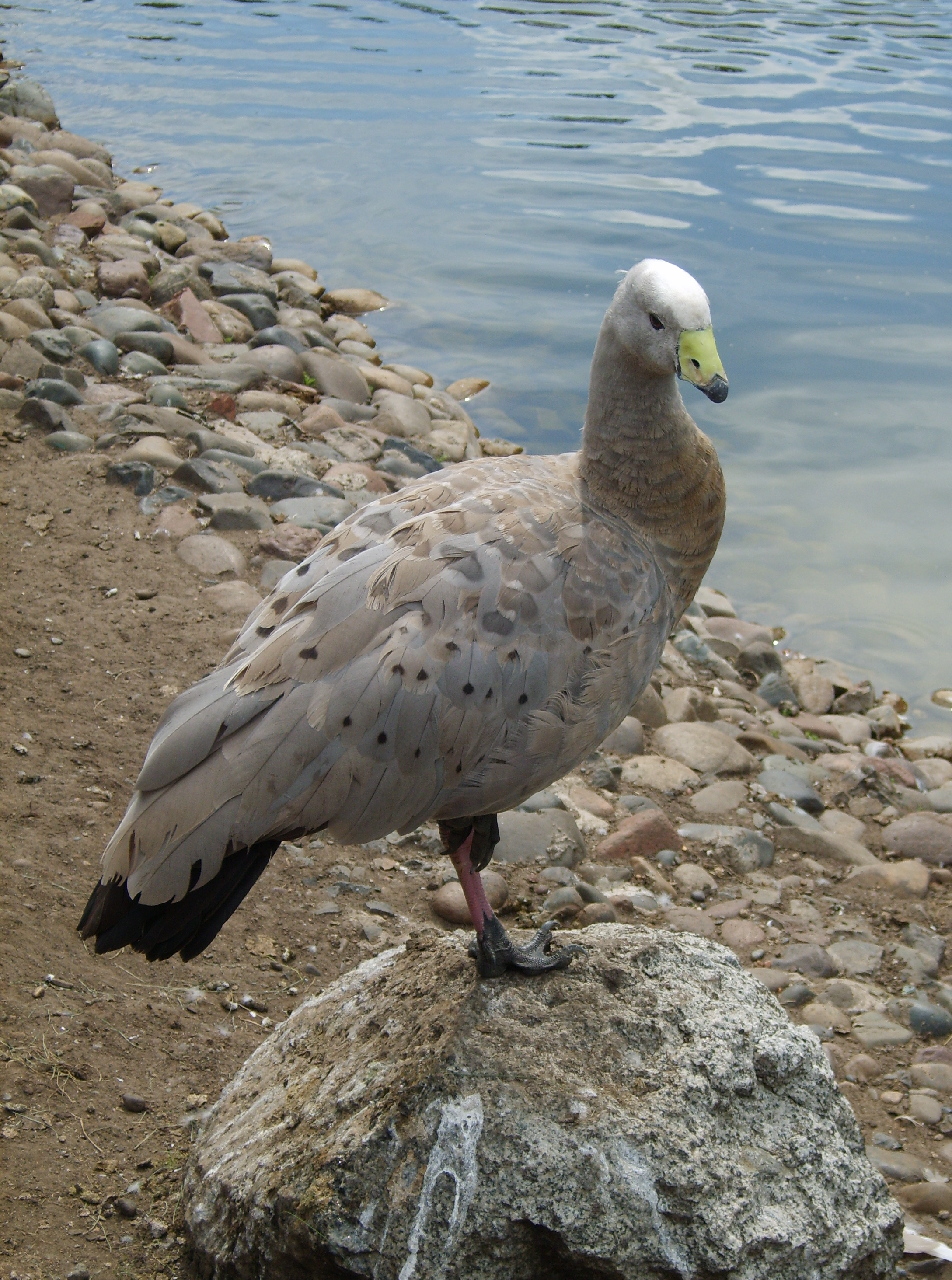 A Cape Barren goose (Cereopsis novaehollandiae) in Royev Ruchey Zoo in Krasnoyarsk, Russia.